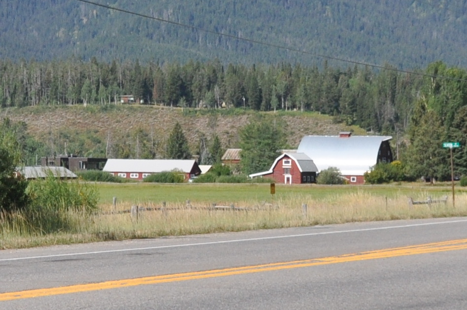 Hardeman Barns, Wilson, Wyoming. Now home to the Teton Raptor Center.